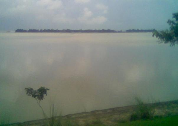 View of part of Cholon Bil, Natore